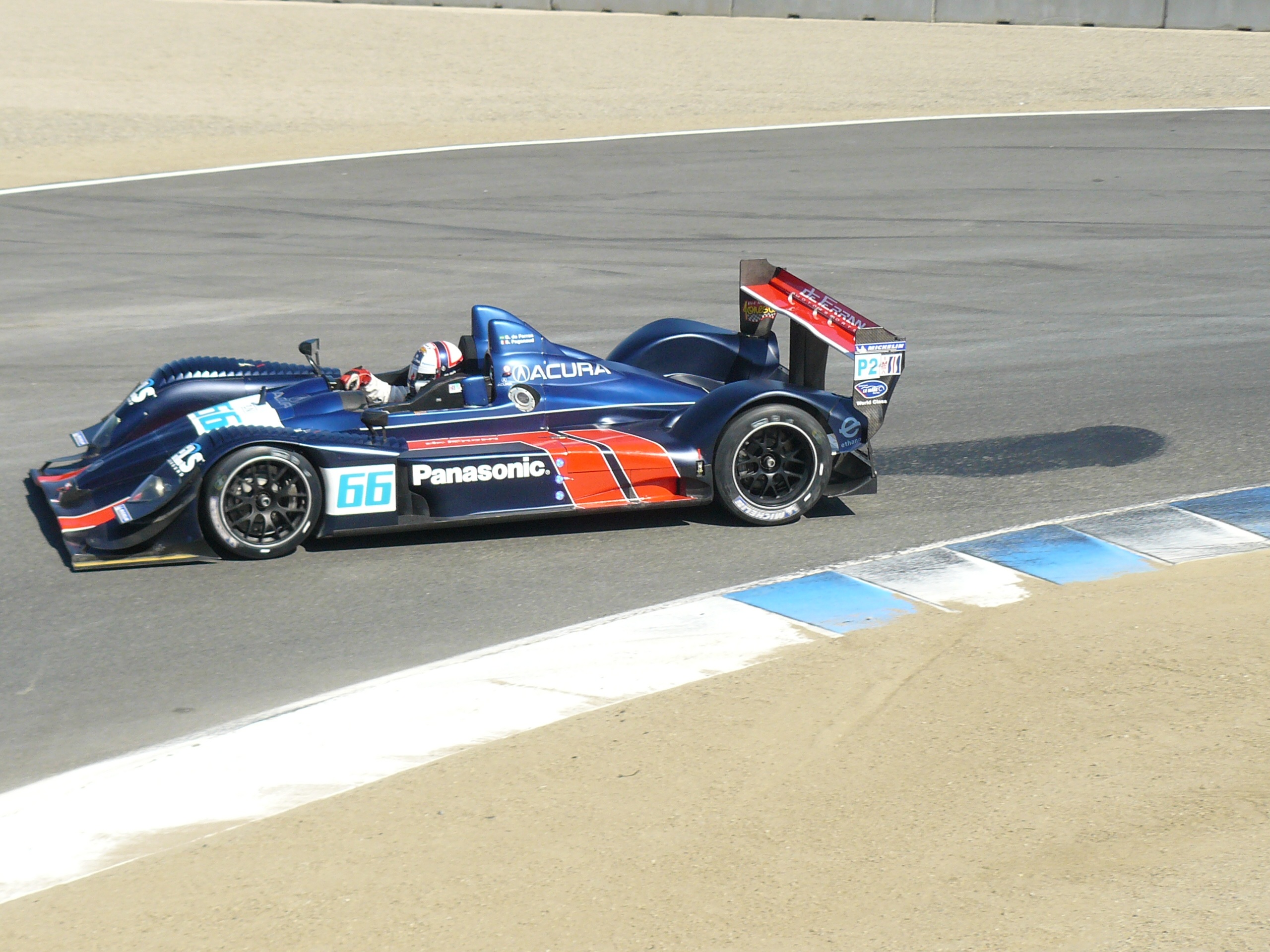 No.66 de Ferran Motorsports Acura ARX-01B on the Corkscrew - ALMS Laguna Seca, Monterey, California, USA. October 2008